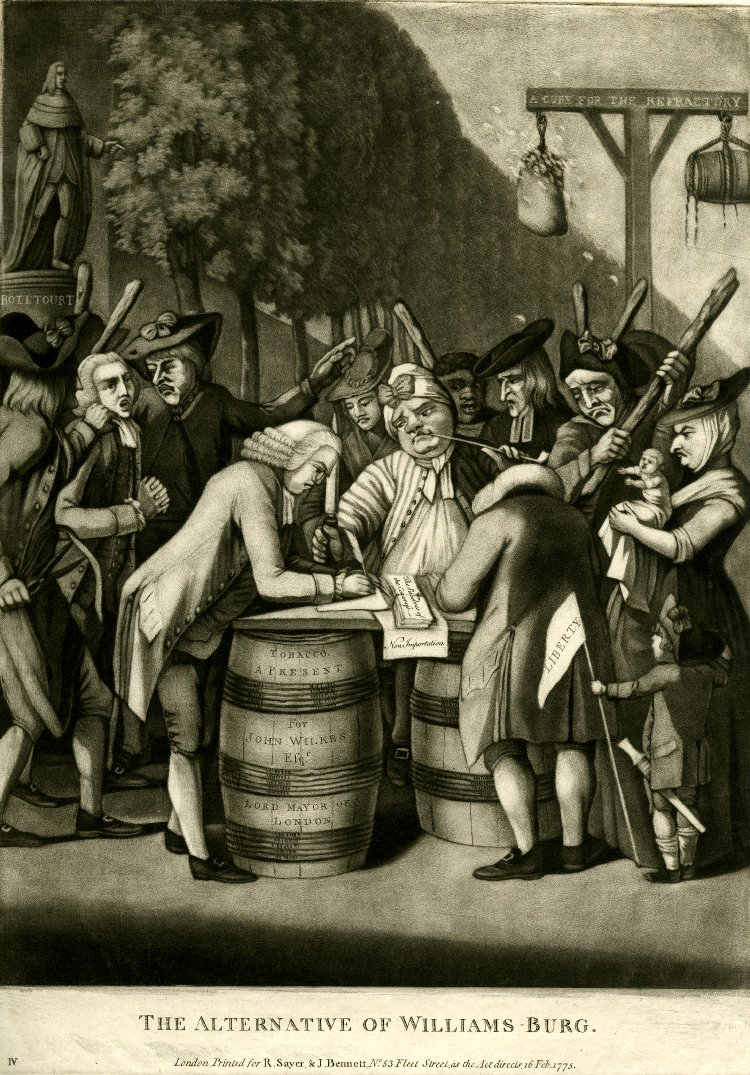 "The Alternative of Williams-burg," satirical print attributed to British printmaker Philip Dawe, mezzotint with etching. 352 mm x 252 mm. "Virginian loyalists being forced to sign either the Association or the Resolutions drawn up by the Williamsburg Convention in Aug. 1774. A number of Liberty Men with large clubs are grouped round two casks on the top of which is a plank serving as a table; on this is the paper which the reluctant loyalists are being forced to sign." Courtesy of the British Museum, London.